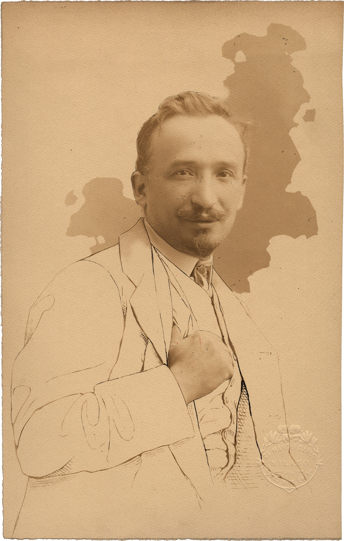 Portrait of Luigi Sapelli, costume designer (1865-1936). Photo by Carlo De Marchi, before 1936.